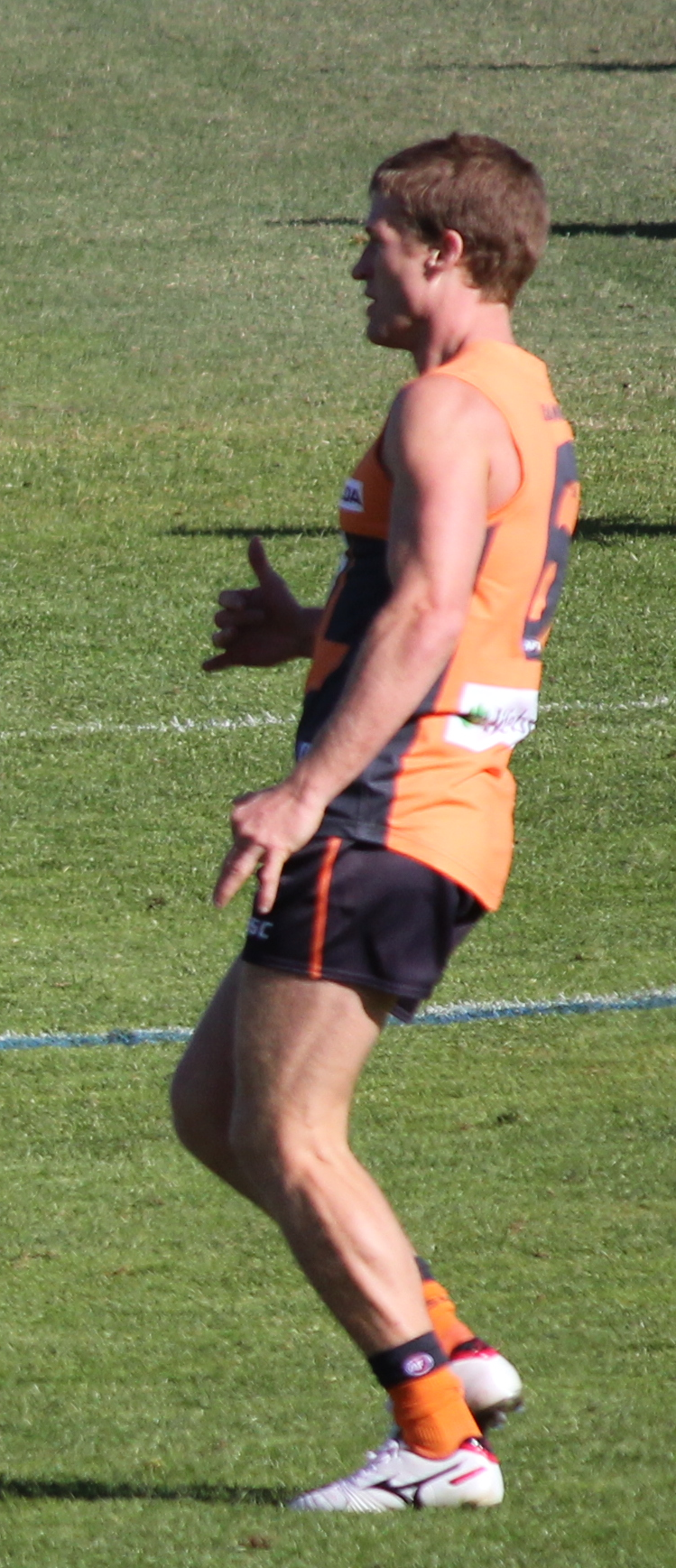 2012 Round 7. GWS Giants vs Gold Coast Suns. Manuka Oval.